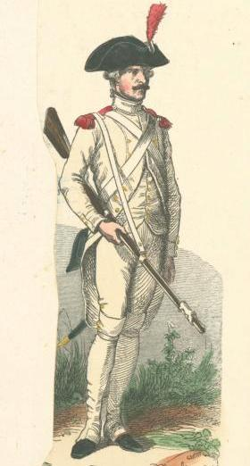 french soldier of the 1 st regiment of line (Picardie) A.D. 1750